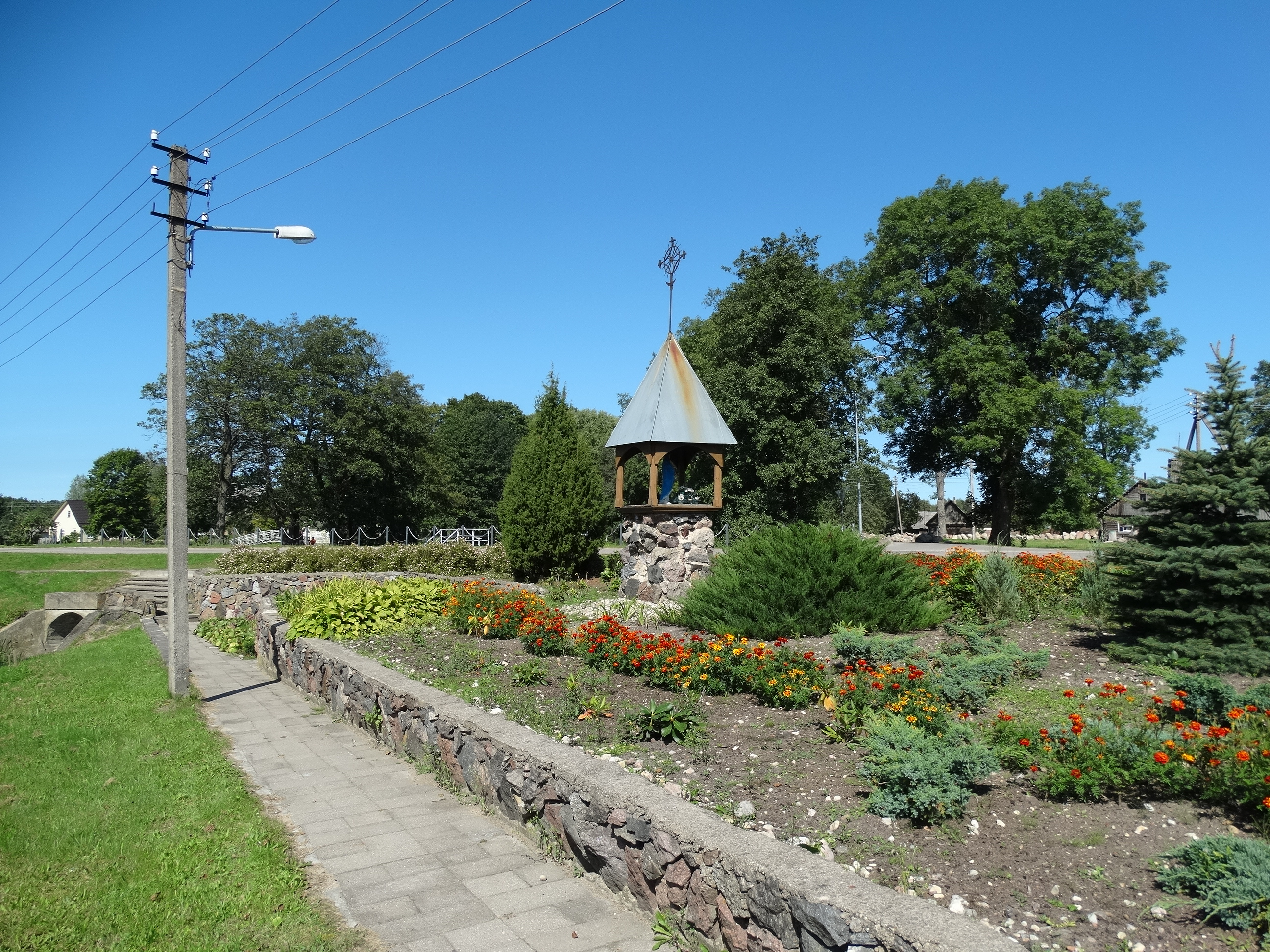 Wayside shrine, Sariai, Švenčionys district, Lithuania